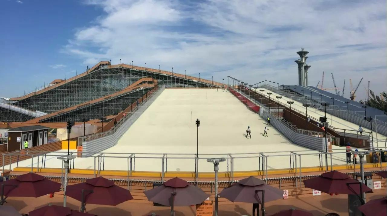 JF dry ski slope in Beijing Olympic forest park opening on 2016